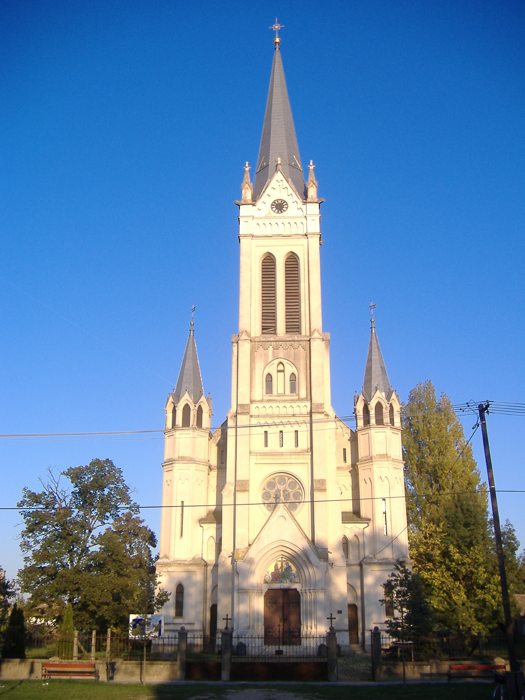 The roman catholic church in Makó, in the new town.